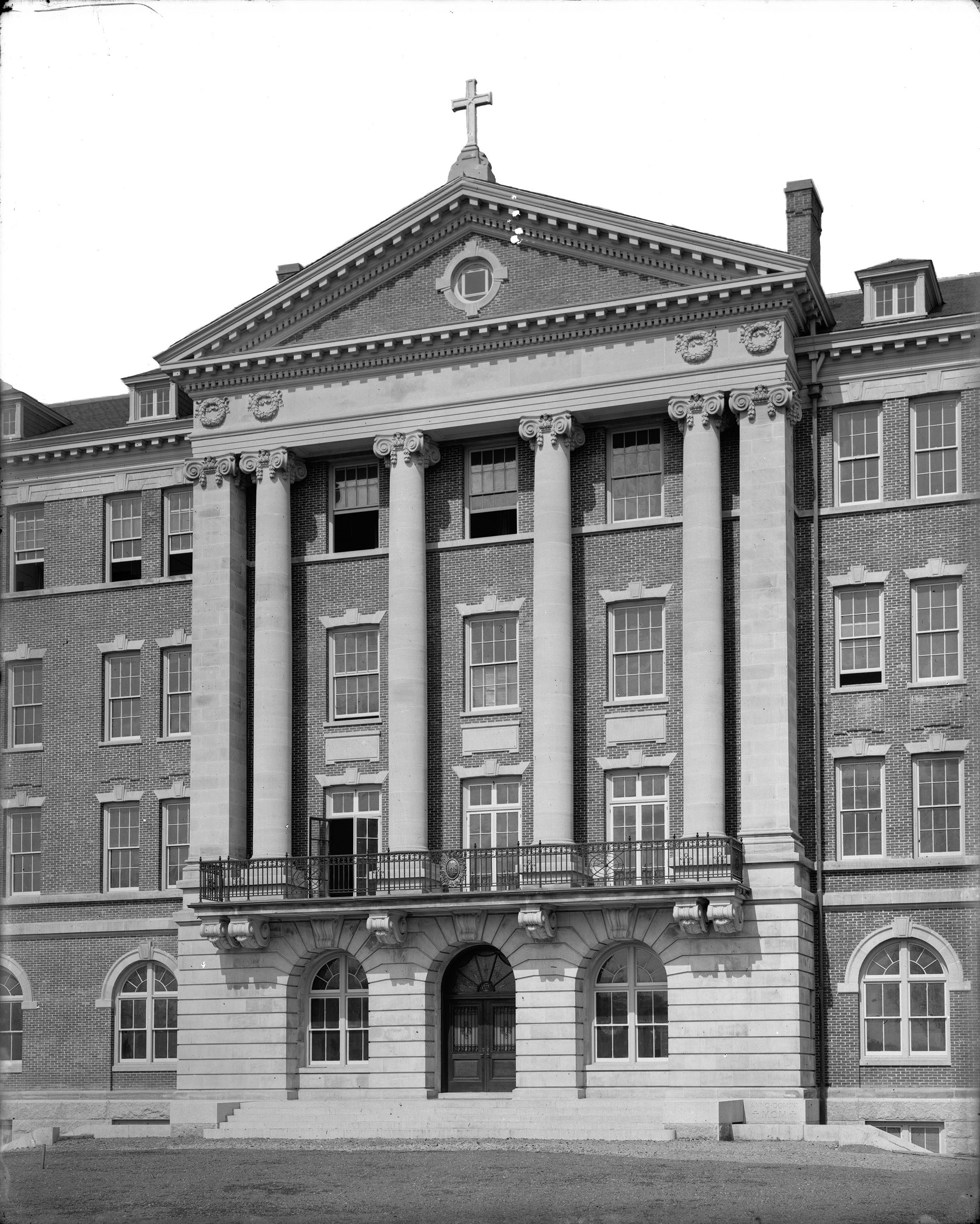 St. Andrew-on-Hudson in 1920, now the Hyde Park campus of the CIA.